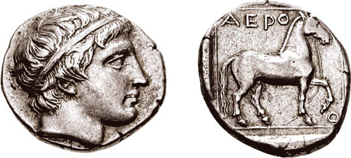 Aeropos. Circa 398/7-395/4 BCE. AR Stater. Aigai mint. Head of Apollo right, with short hair, wearing taenia / Gk: ΑΕΡΟ-[Π]-Ο, horse advancing right, trailing rein, within linear border in shallow incuse square.